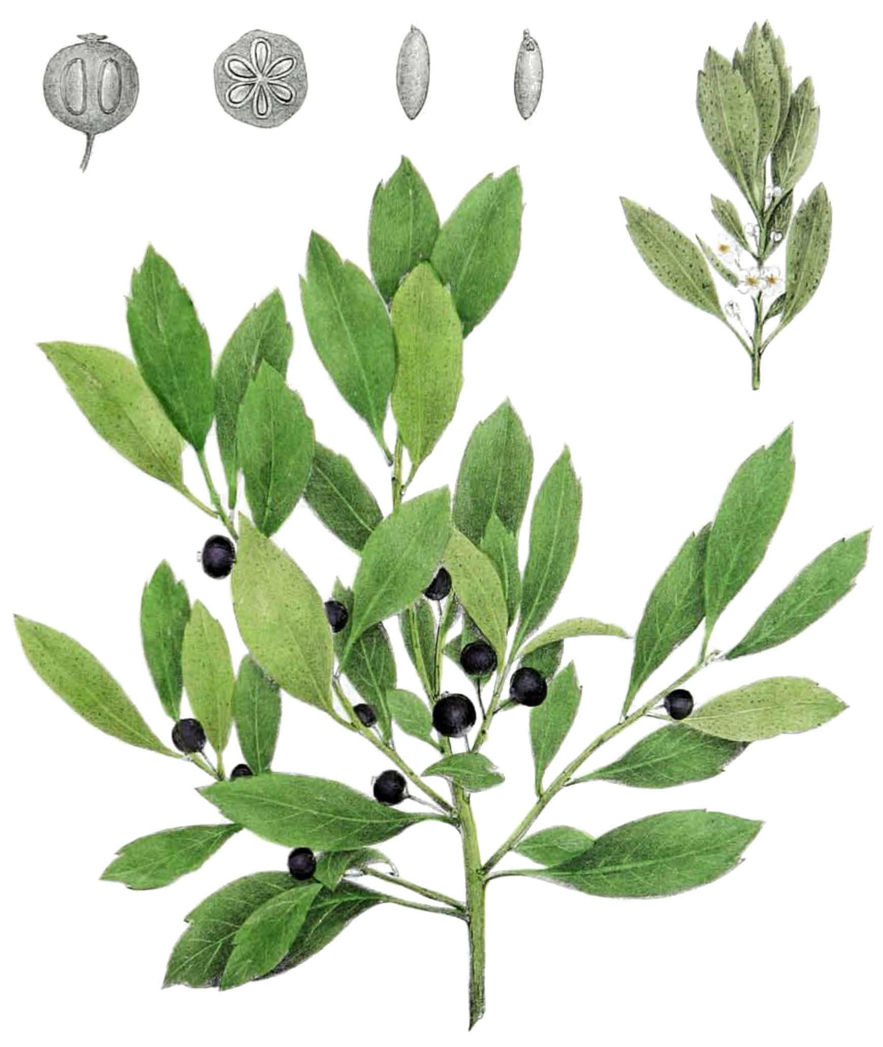 Ilex glabra (L.) Gray (syn. Prinos glaber L.) - inkberry, gallberry, winter-berry. Volume 2, Plate 1 of John Torrey's A Flora of the State of New York